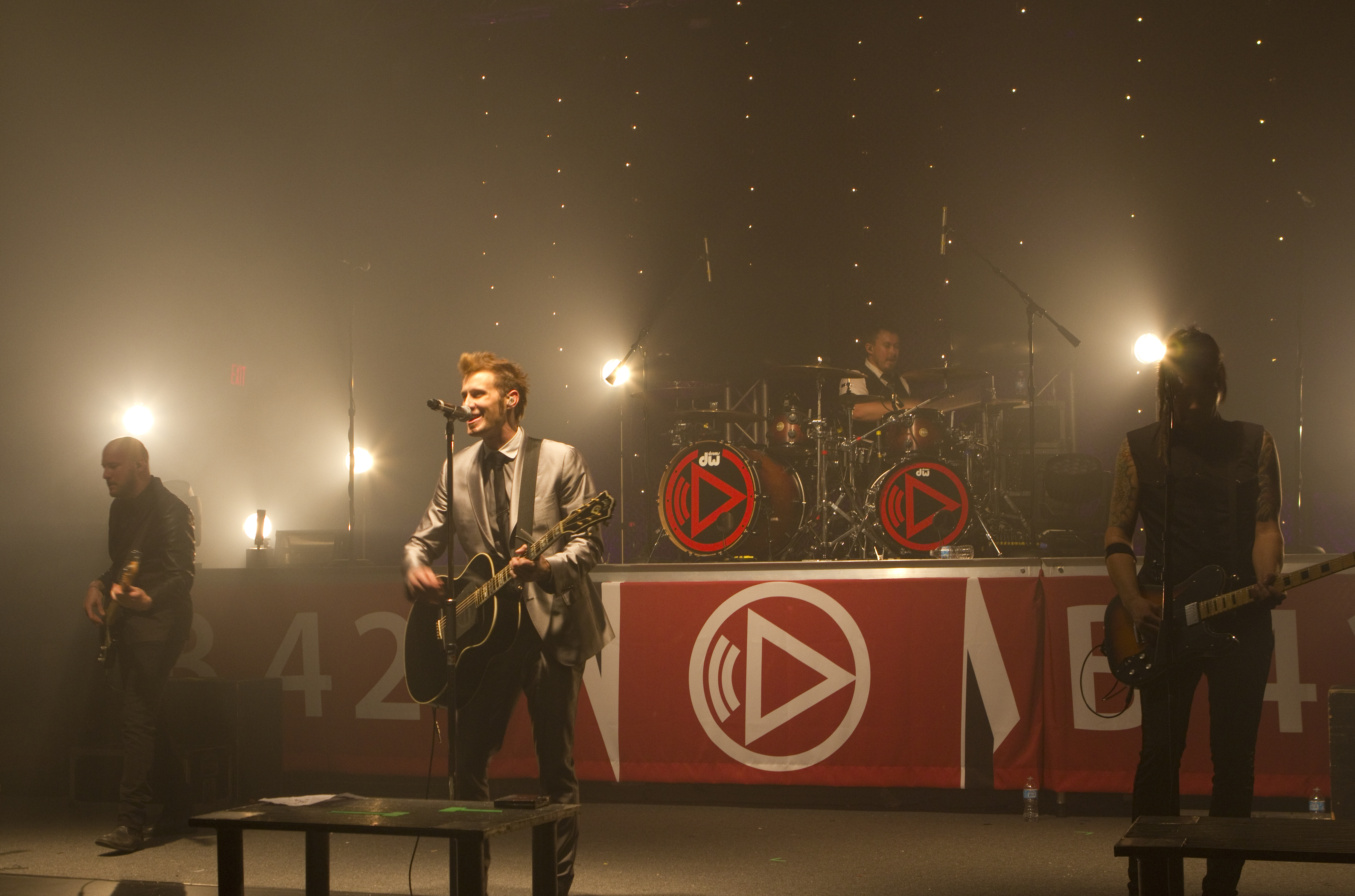 Live picture of Building 429 in concert in Nashville, TN